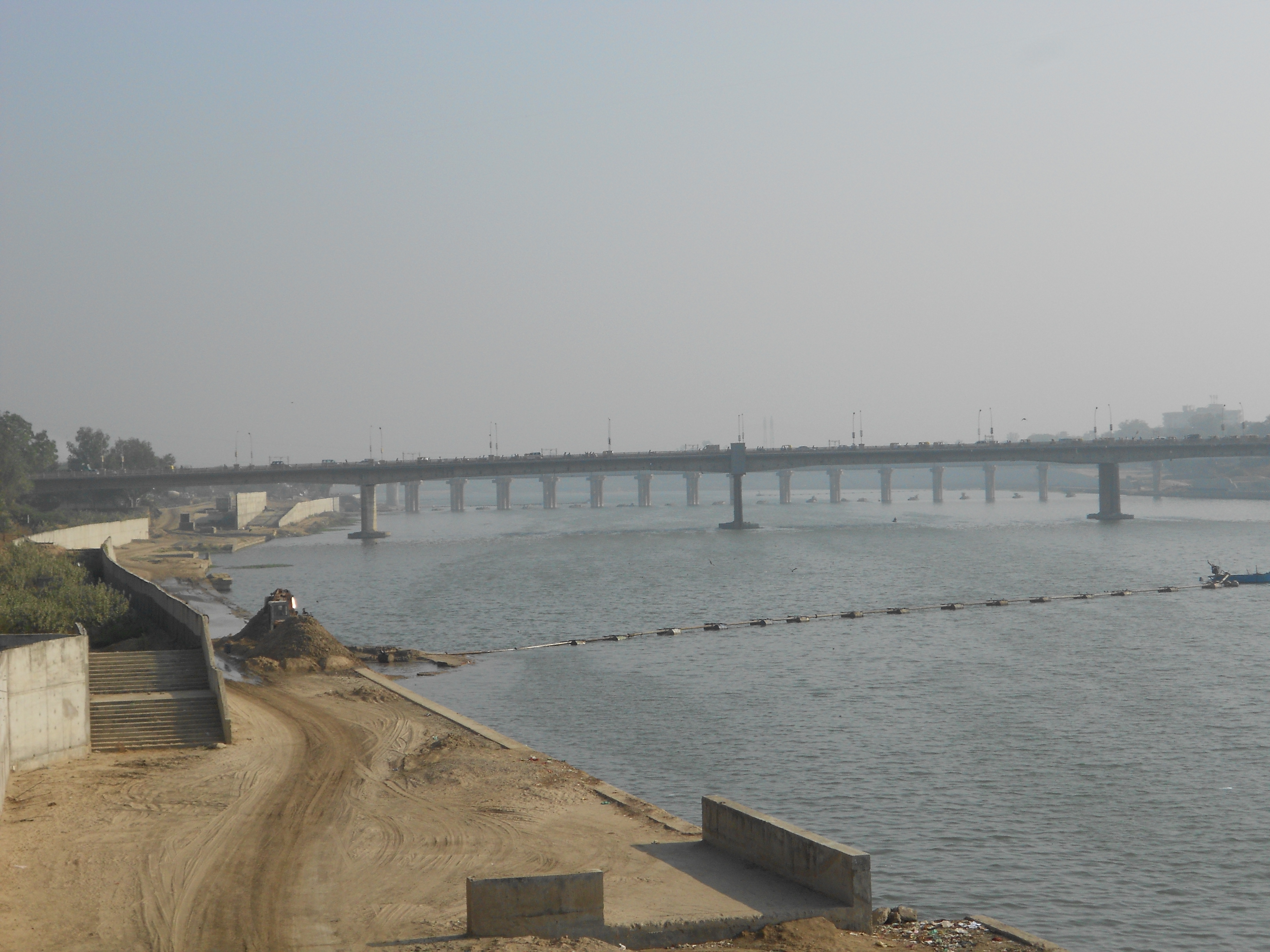 Nehru bridge in the morning